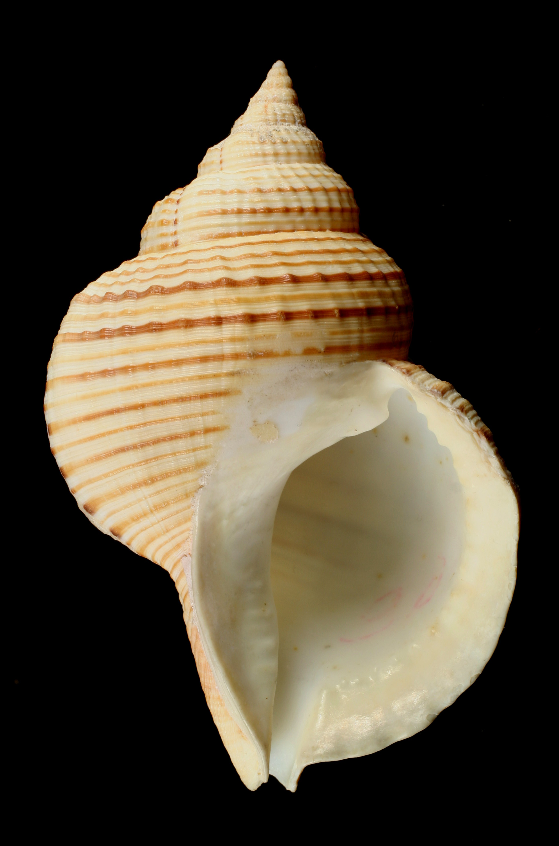 Ranellidae: Argobuccinium tumidum (Dunker, 1862)